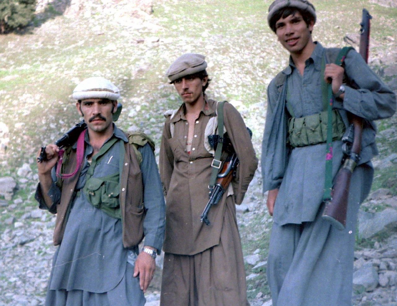 Lali Jan the teacher -no English- looking tough on left -Kunar north of Asmar Afghanistan Aug1985 P7290169; They called him the "teacher" and they believed he spoke English -- but I didn't understand a word he said, nor did he understand what I said.